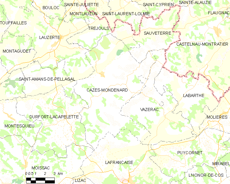 Map of French municipality Cazes-Mondenard